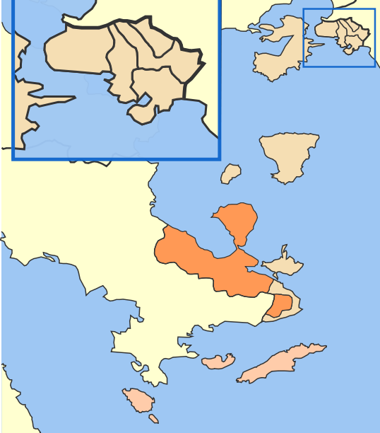 Map of Troizinia municipality, Greece